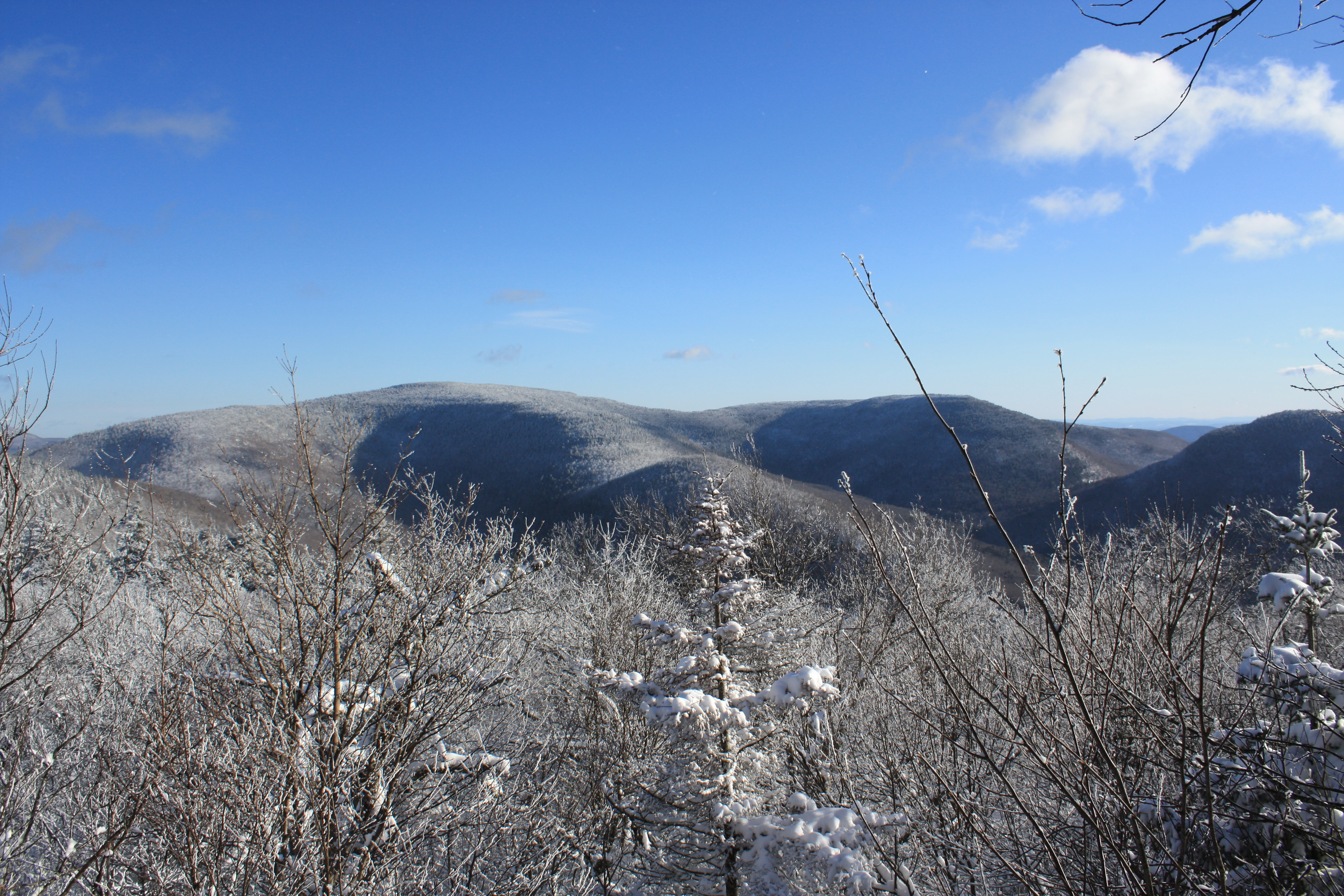 The view from the summit of Rusk Mountain